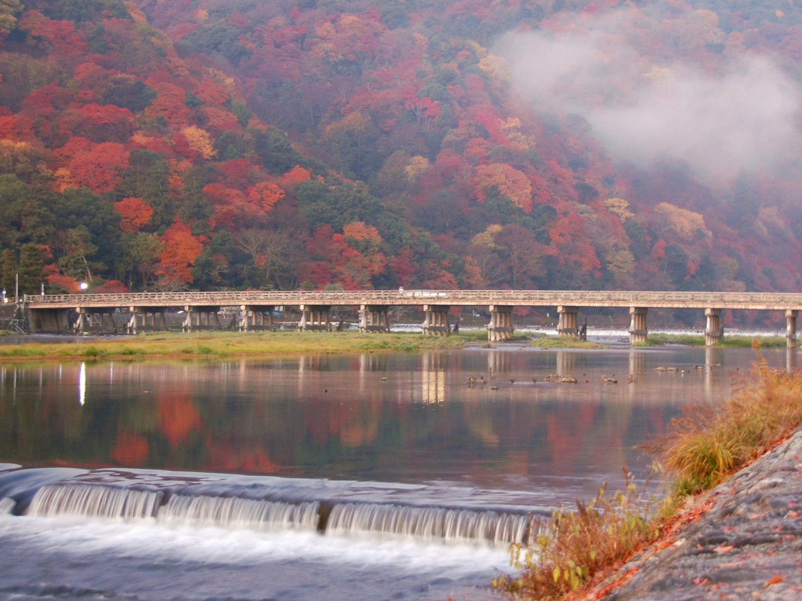 Arashiyama "Togetsukyo". en：The bridge "TogetsuKyo" which is Arashiyama （Ukyo-Ku, Kyoto） ja：京都嵐山（右京区）の渡月橋, Kyoto.